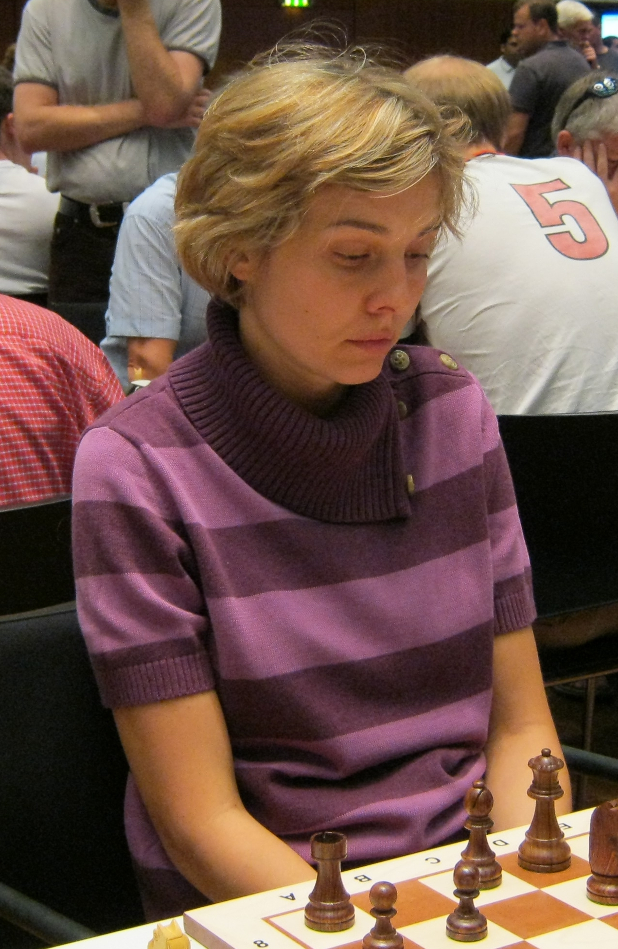 Barbara Jaracz, Polish chess player (woman grandmaster)